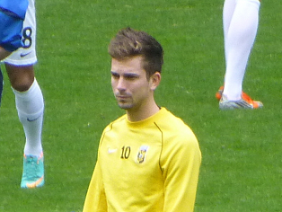 Davy Pröpper in GelreDome prior to the football match Vitesse vs. FC Twente